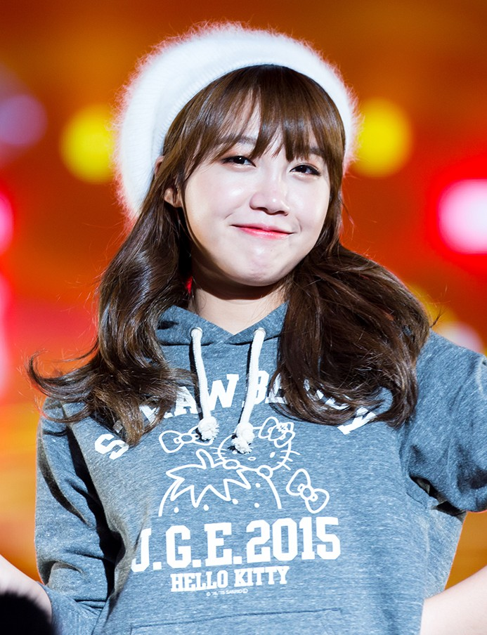 Jung Eun-ji at Girls Awards Girls Collection in Osaka, 1 November 2015